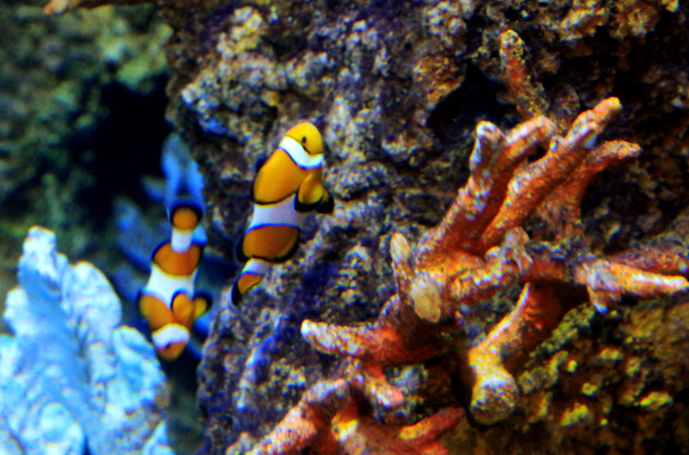 Fish Ocellaris clownfish, Amphiprion ocellaris in Malta National Aquarium in St. Paul's Bay, Malta